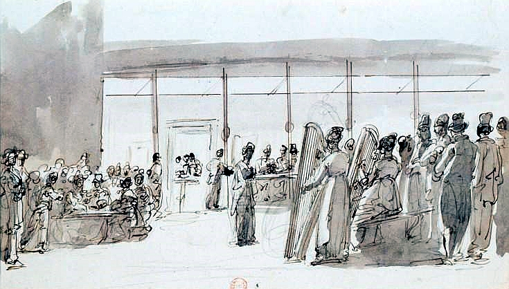 Inside a café-chantant in Paris on the Champs-Élysées in 1820. Ink and Indian ink wash.